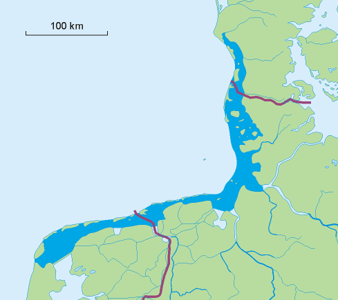 Map of the Wadden Sea.